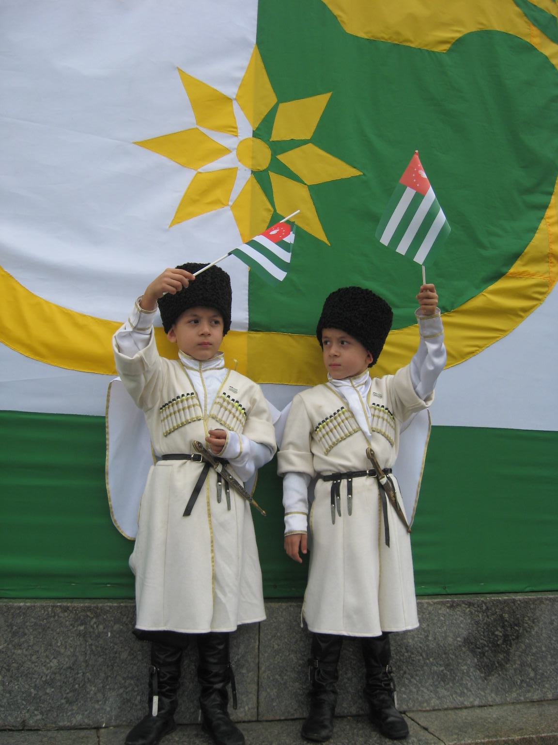 Apsua Childs Waving Apsny Flag